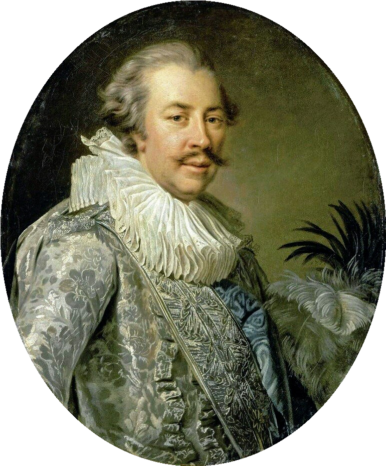 Portrait of Louis Hercule Timoléon de Cossé-Brissac (1734-1792), maréchal de camp en 1780, Gouverneur de Paris de 1775 à 1791. En costume de capitaine-colonel des Cent-Suisses du Roi Vers 1770